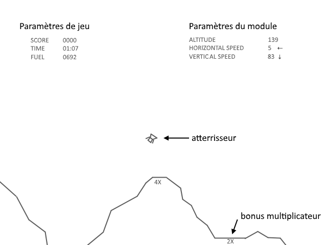 Interface of Atari's video game Lunar Lander (arcade)